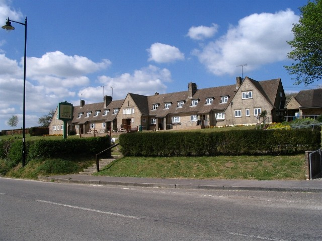 The Tolpuddle Martyrs museum and cottages The six cottages were built in 1934 as a centenary memorial to the six men who formed a friendly society in an attempt to ameliorate the starvation wages paid to agricultural workers in the 1830s. The men, James Brine; James Hammett; George Loveless; James Loveless; Thomas Standfield and John Standfield were tried and found guilty in 1834 on a trumped up charge and were transported to Australia. A popular movement of support resulted in the release of five in 1836 and the final one in 1837. The cottages incorporated a library for the workers, at the centre of the terrace, which evolved into the current museum after the deposit of many artefacts relating to the martyrs.